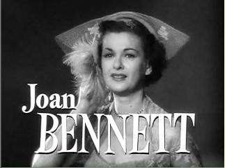 Cropped screenshot of Joan Bennett from the trailer for the film Father of the Bride